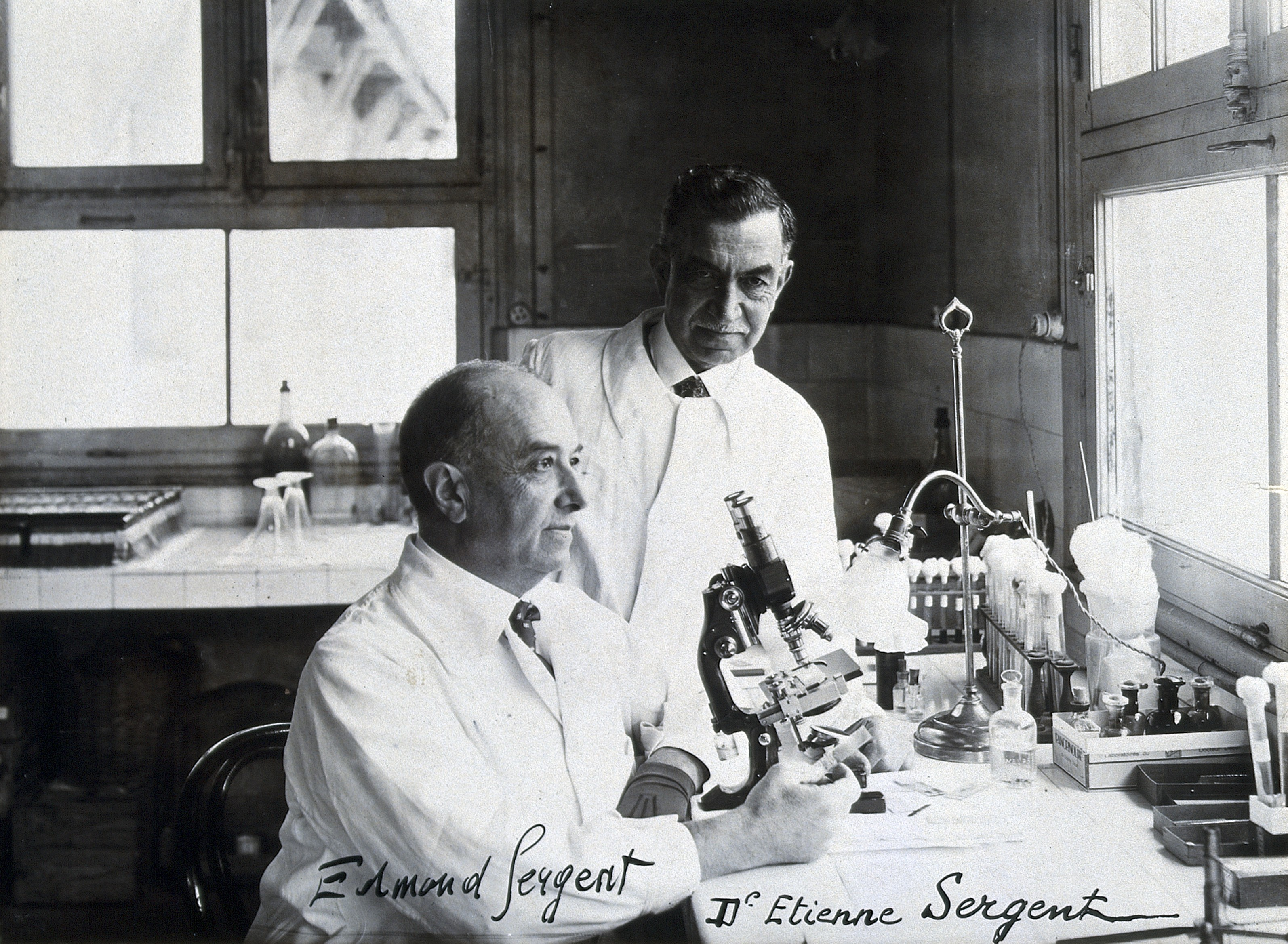 Edmond Sergent (sitting) and Etienne Sergent. Photograph. Iconographic Collections Keywords: portrait photographs